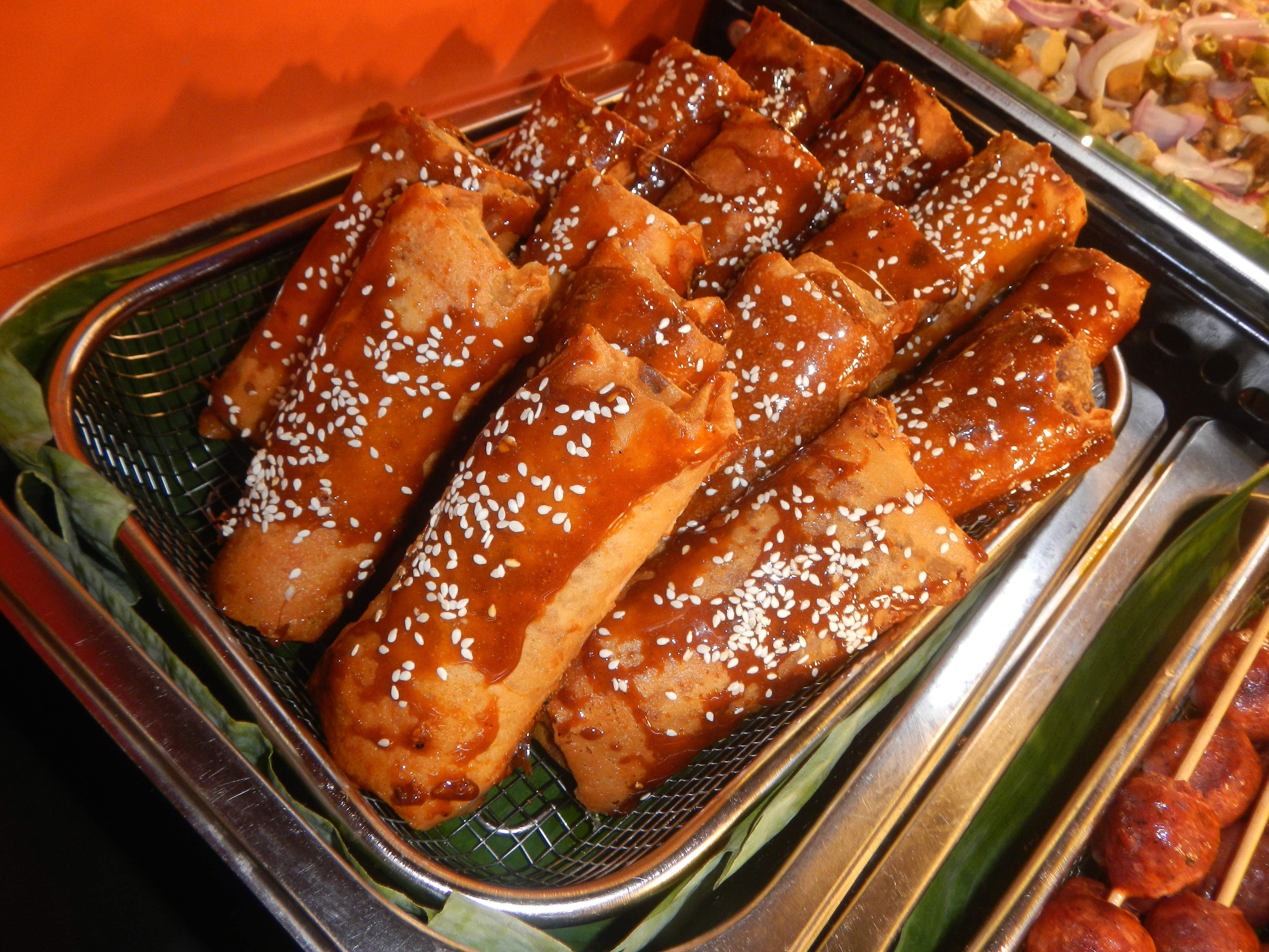 Philippine cuisine List of Philippine dishes Banana ketchup Lechon sauce Otap (food) Turon (food) Bicol express Laing Kaldereta Dinuguan Bopis Lechon kawali Longaniza Longaballs Tocneneng Barangay Pagala, 14°58'14"N 120°53'26"E Baliuag, Bulacan, Bulacan, along DRT Highway or Maharlika Highway (Cagayan Valley Road, Baliuag-Pulilan-Guiguinto, Bulacan) Pan-Philippine Highway, also known as the Maharlika "Nobility/freeman" Highway or Asian Highway 26, Cagayan Valley Road (Note: Judge Florentino Floro, the owner, to repeat, Donor Florentino Floro of all these photos hereby donate gratuitously, freely and unconditionally all these photos to and for Wikimedia Commons, exclusively, for public use of the public domain, and again without any condition whatsoever).